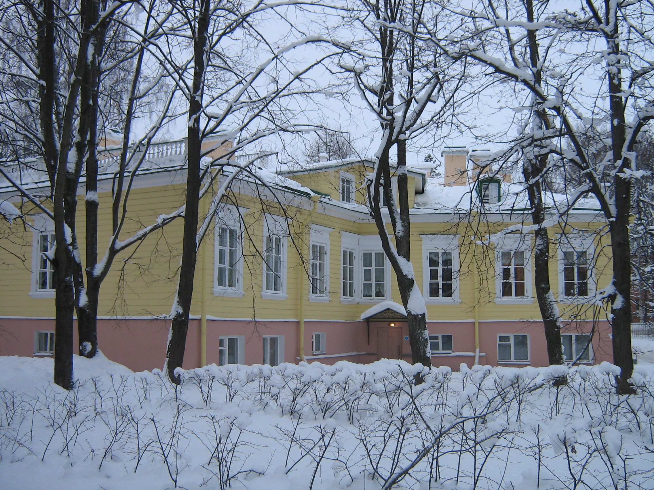 Saint Petersburg (Russia), town Pushkin.